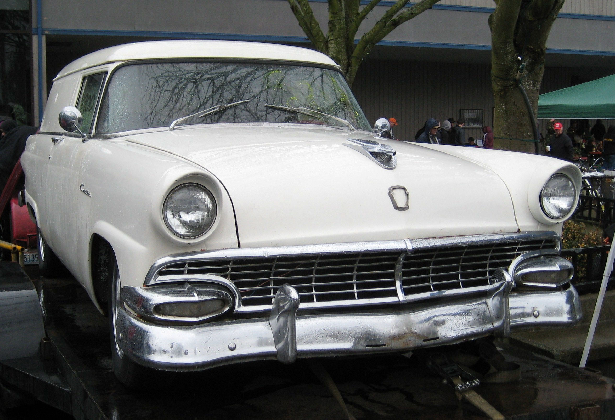 1956 Ford Courier Sedan Delivery. Seen at the Early Bird Swap Meet in February 2010, Puyallup, Washington. Long time meet held in the winter, filled with project cars, and not very many finished ones.